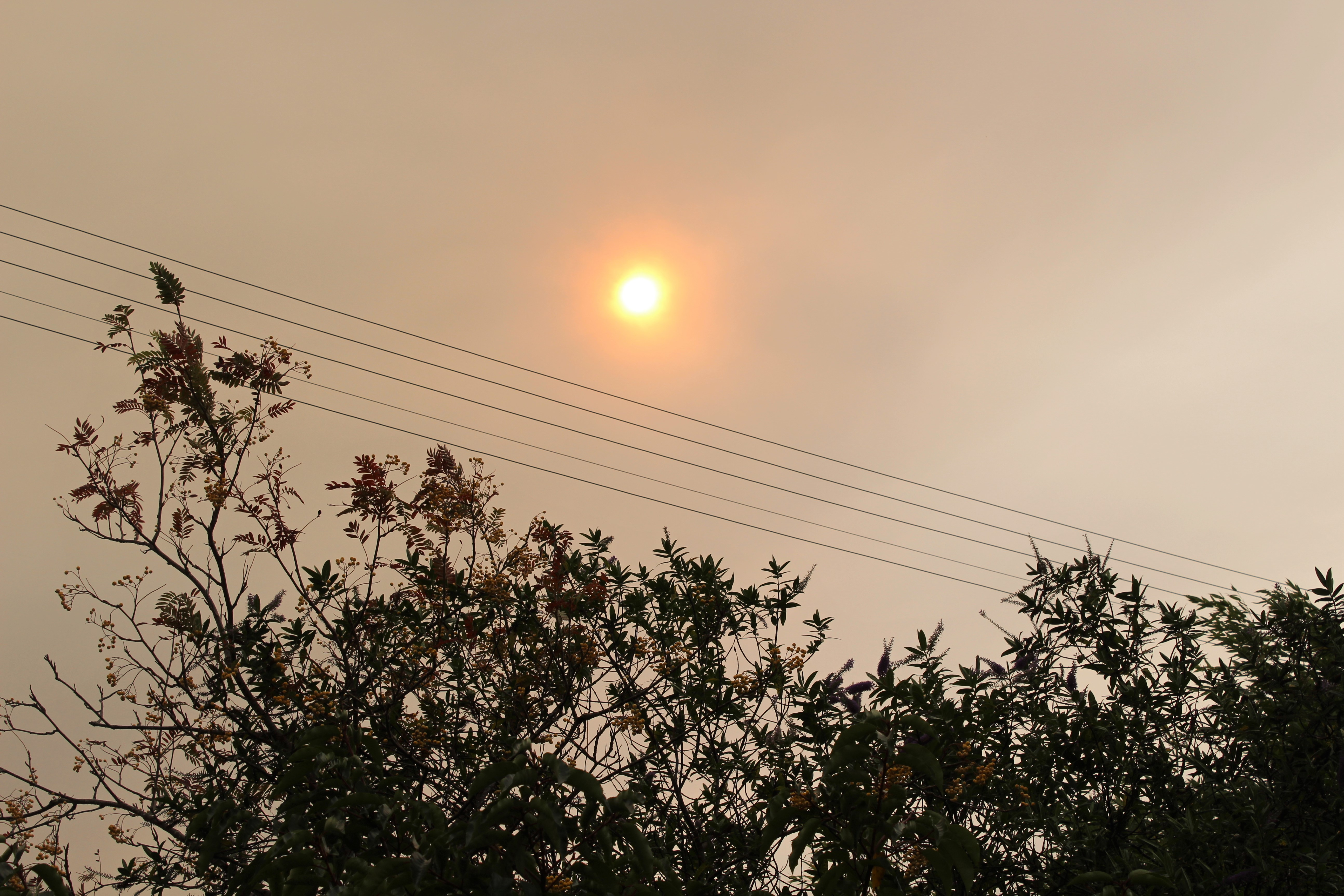 Caused by Sahara dust particles brought over by Ex-Hurricane Orphelia.